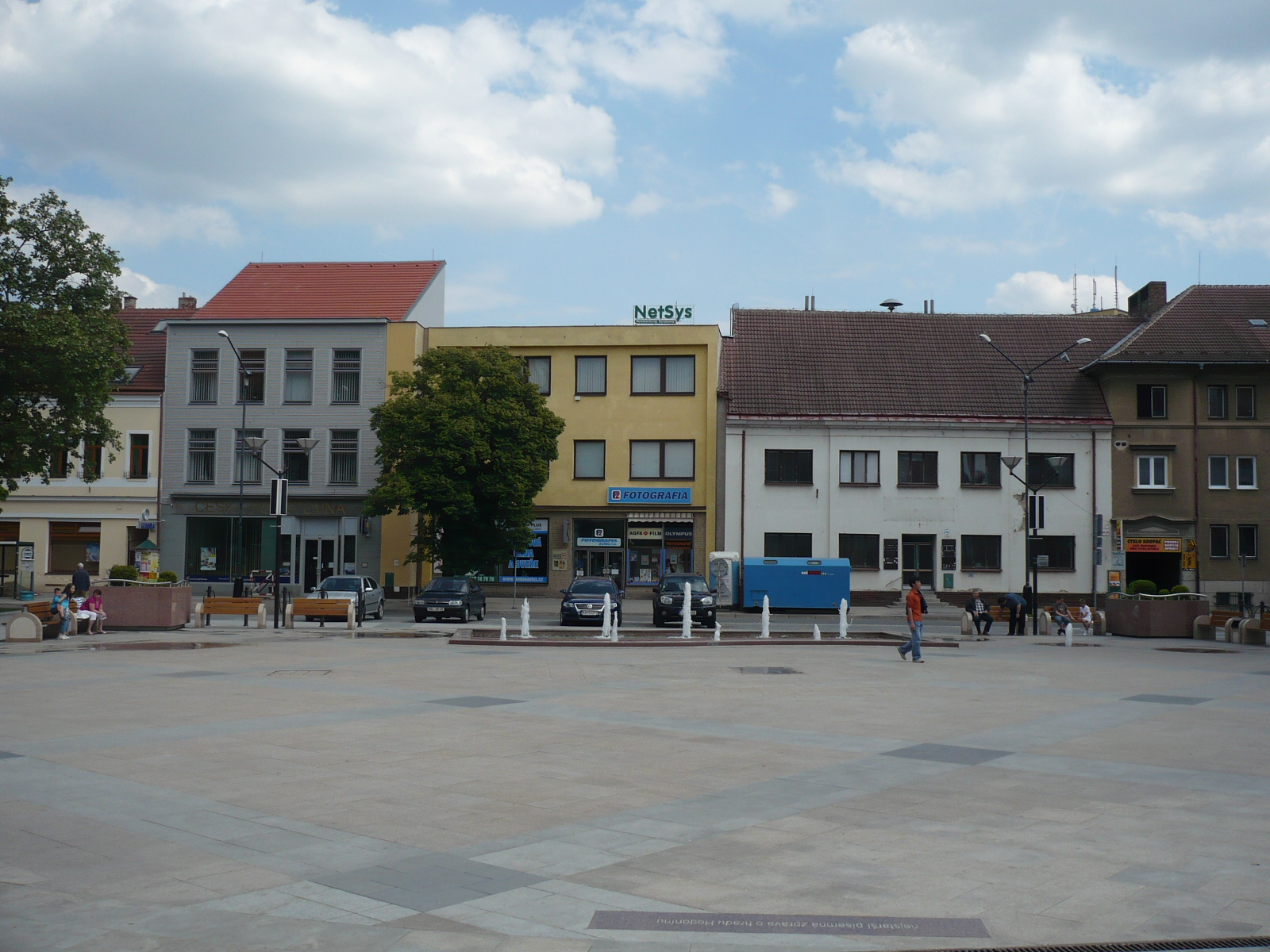 Hodonin